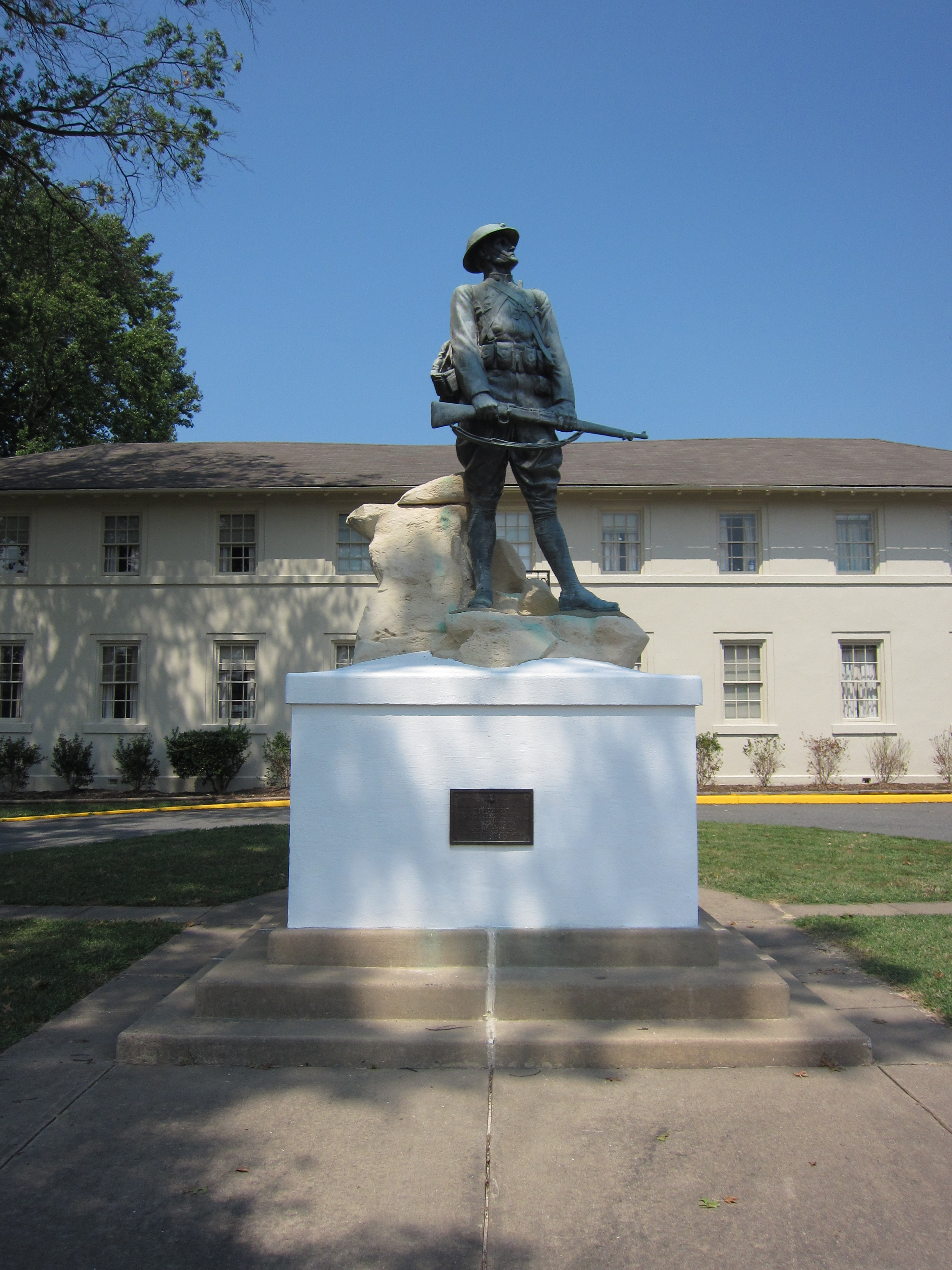 "Crusading for Right" (1918) sculpture at Butler Hall, 1019 Elliot Road, Marine Corps Base Quantico, Virginia. It is a memorial to the 6th Machine Gun Battalion.